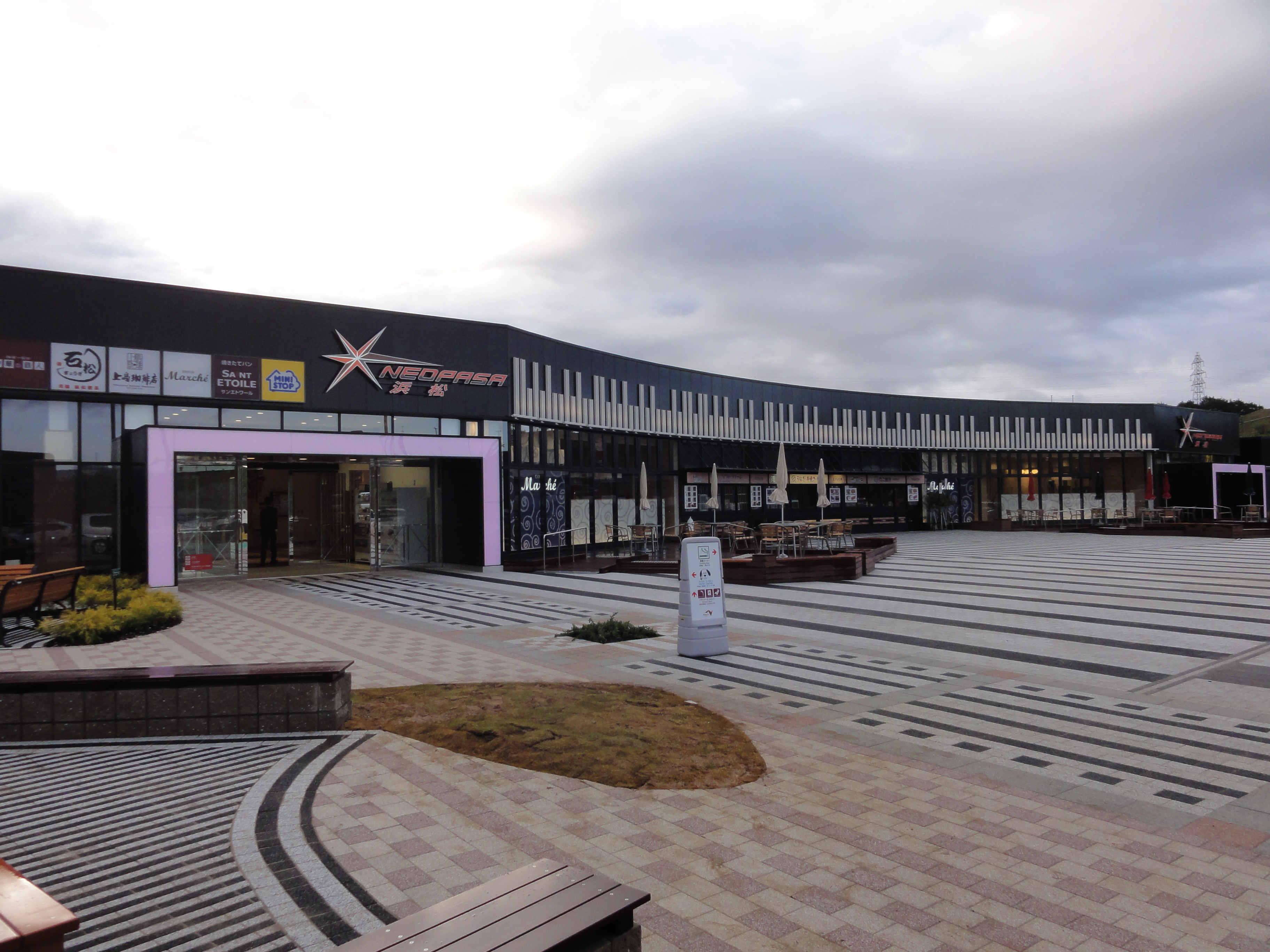 Hamamatsu Service Area on the Shin-Tomei Expressway inbound line